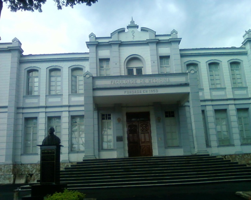 sede uftm uberaba mg